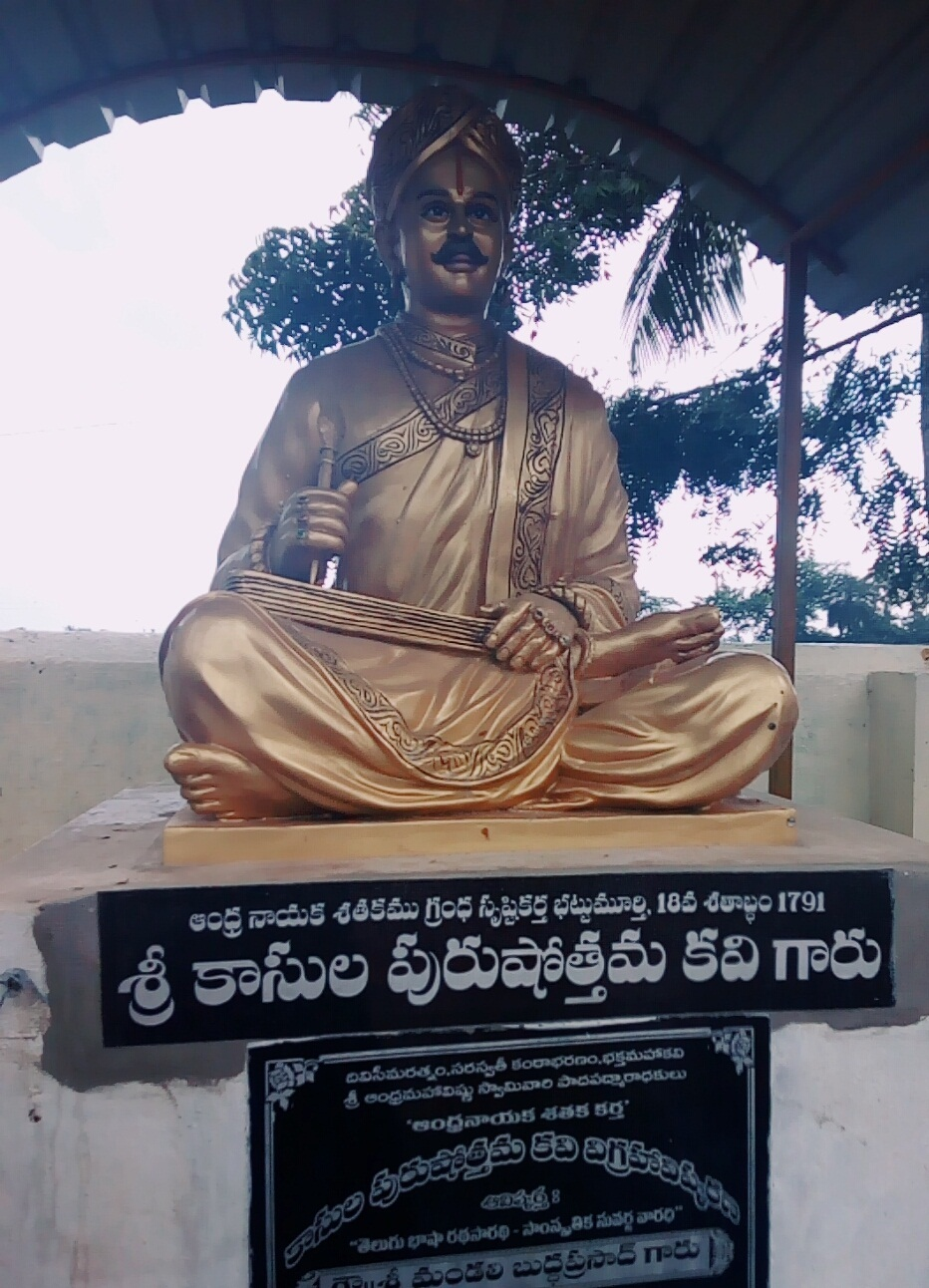 This is a statue of Sri Kasula Puroshothama Kavi in Andhra Vishnu temple,Srikakulam, Krishna District ,Andhra Pradesh